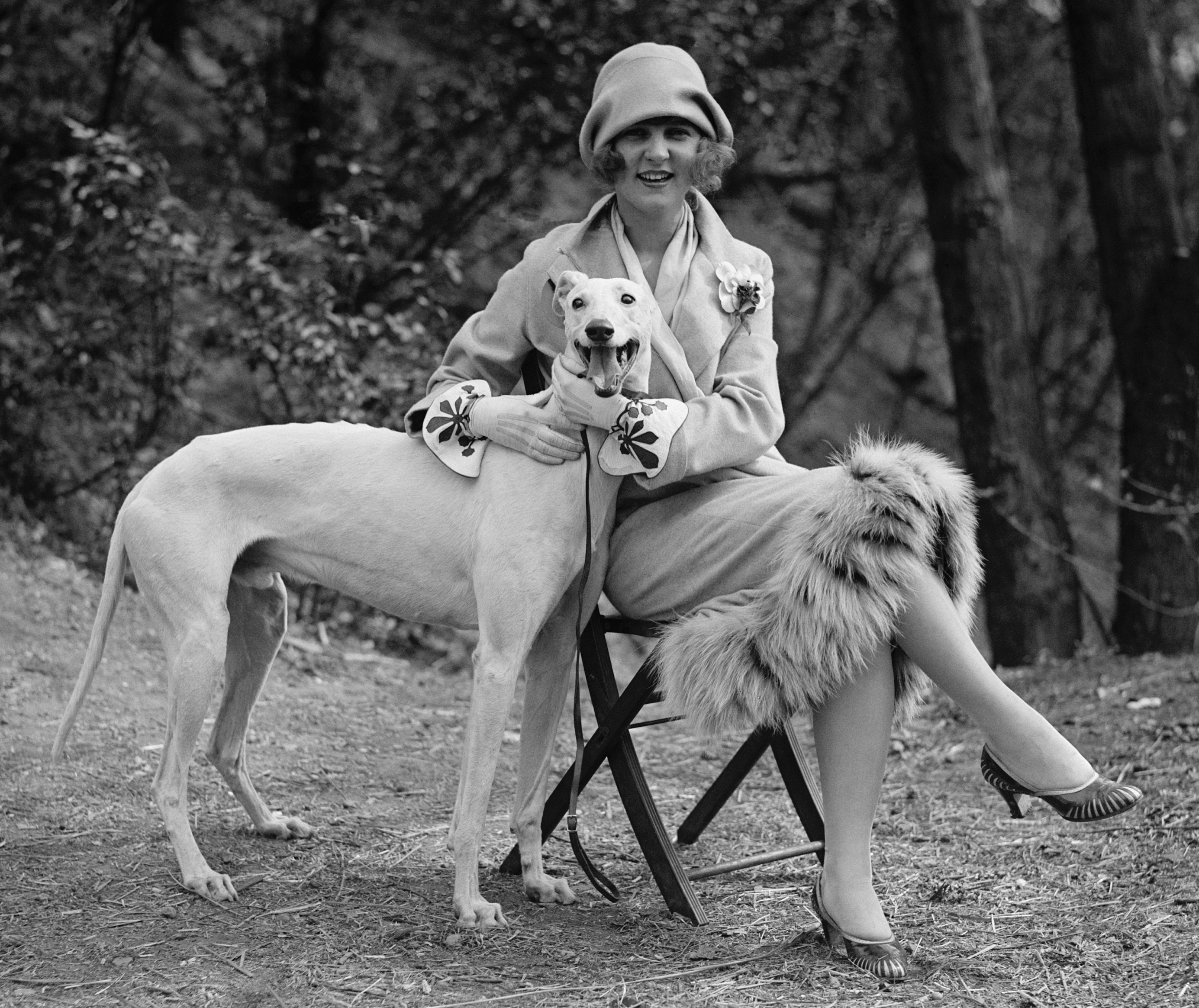 First Miss America Margaret Gorman posing with her Greyhound, "Long Goodie".